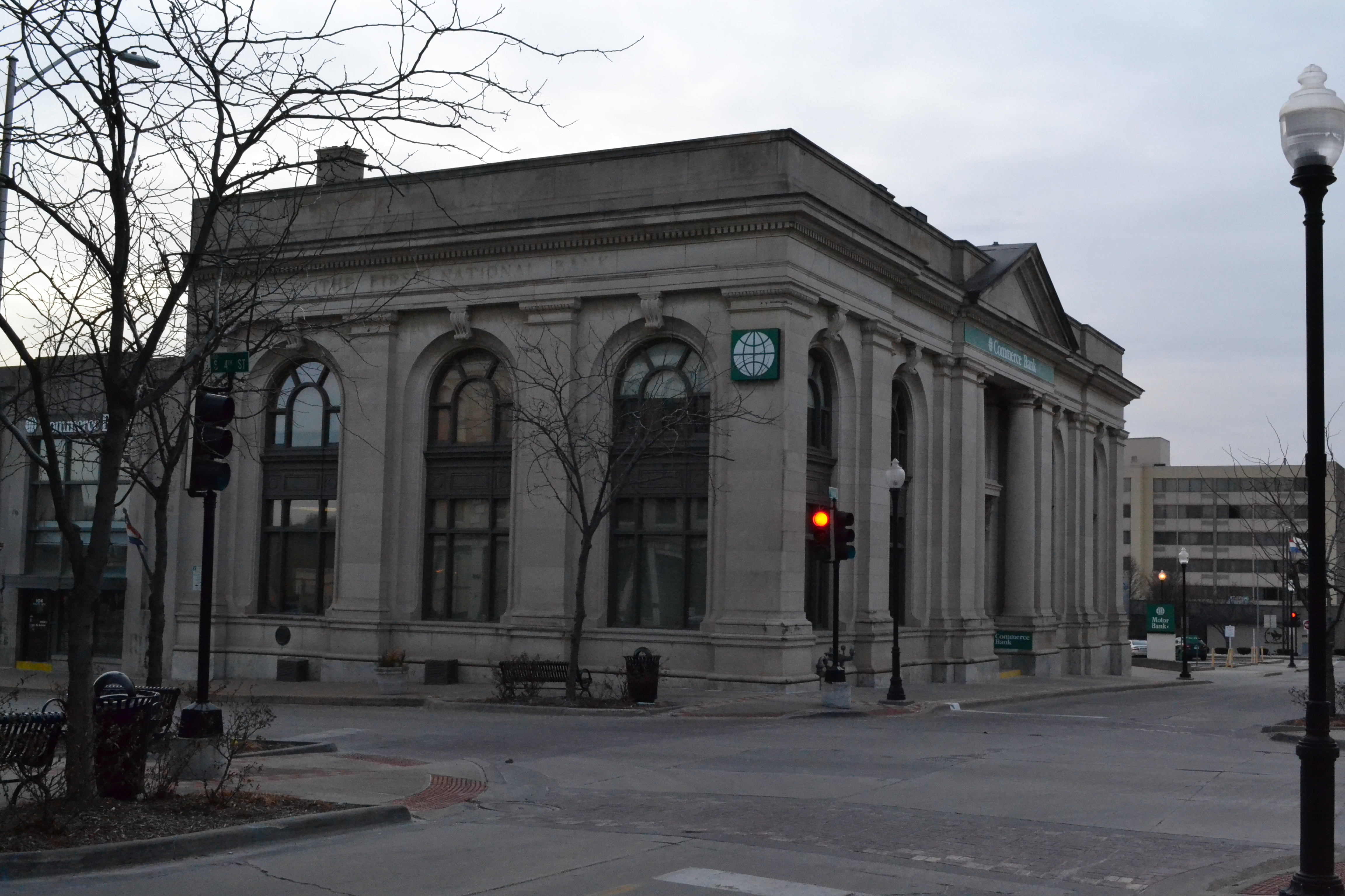 The First National Bank in St. Joseph, Missouri. Part of the St. Joseph Commerce and Banking Historic District.